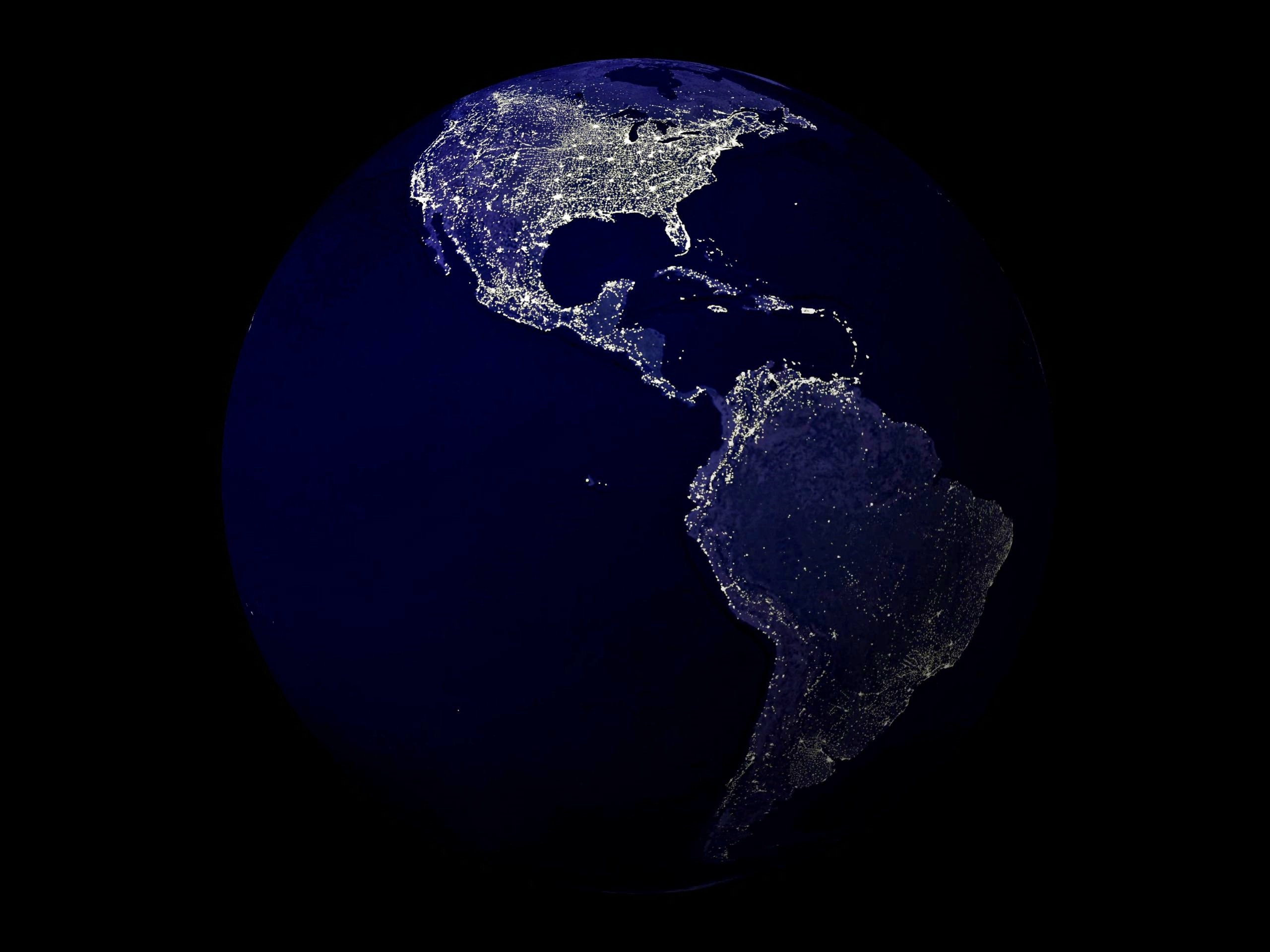 Collection: NASA Scientific Visualization Studio Collection Title: Earth at Night 2001 Instrument: DMSP/OLS Description: Human-made lights highlight particularly developed or populated areas of the Earths surface, including the seaboards of Europe, the eastern United States, and Japan. Abstract: This is what the Earth looks like at night. Can you find your favorite country or city? Surprisingly, city lights make this task quite possible. Human-made lights highlight particularly developed or populated areas of the Earth's surface, including the seaboards of Europe, the eastern United States, and Japan. Many large cities are located near rivers or oceans so that they can exchange goods cheaply by boat. Particularly dark areas include the central parts of South America, Africa, Asia, and Australia. The above image is actually a composite of hundreds of pictures made by the Defense Meteorological Satellite Program (DMSP) currently operates four satellites carrying the Operational Linescan System (OLS) in low-altitude polar orbits. Three of these satellites record nighttime data. The DMSP-OLS has a unique capability to detect low levels of visible-near infrared (VNIR) radiance at night. With the OLS 'VIS' band data it is possible to detect clouds illuminated by moonlight, plus lights from cities, towns, industrial sites, gas flares, and ephemeral events such as fires and lightning-illuminate d clouds. The Nighttime Lights of the World data set is compiled from the October 1994 - March 1995 DMSP nighttime data collected when moonlight was low. Using the OLS thermal infrared band, areas containing clouds were removed and the remaining area used in the time series. This animation is derived from an image created by Craig Mayhew and Robert Simmon from data provided by Christopher Elvidge of the NOAA National Geophysical Data Center.